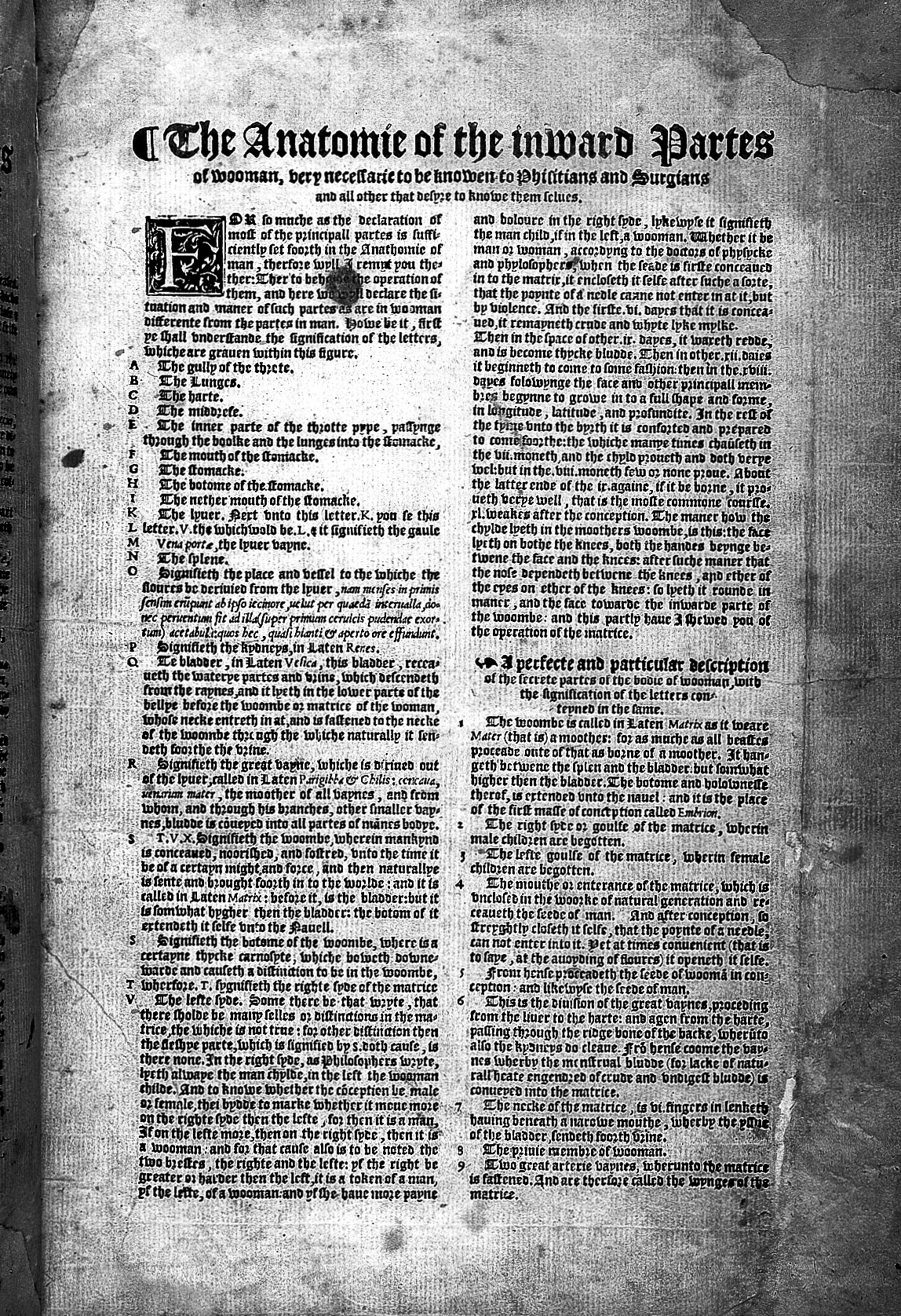 Page of text, headed 'The Anatomy of the inward Parts of woman' Rare Books